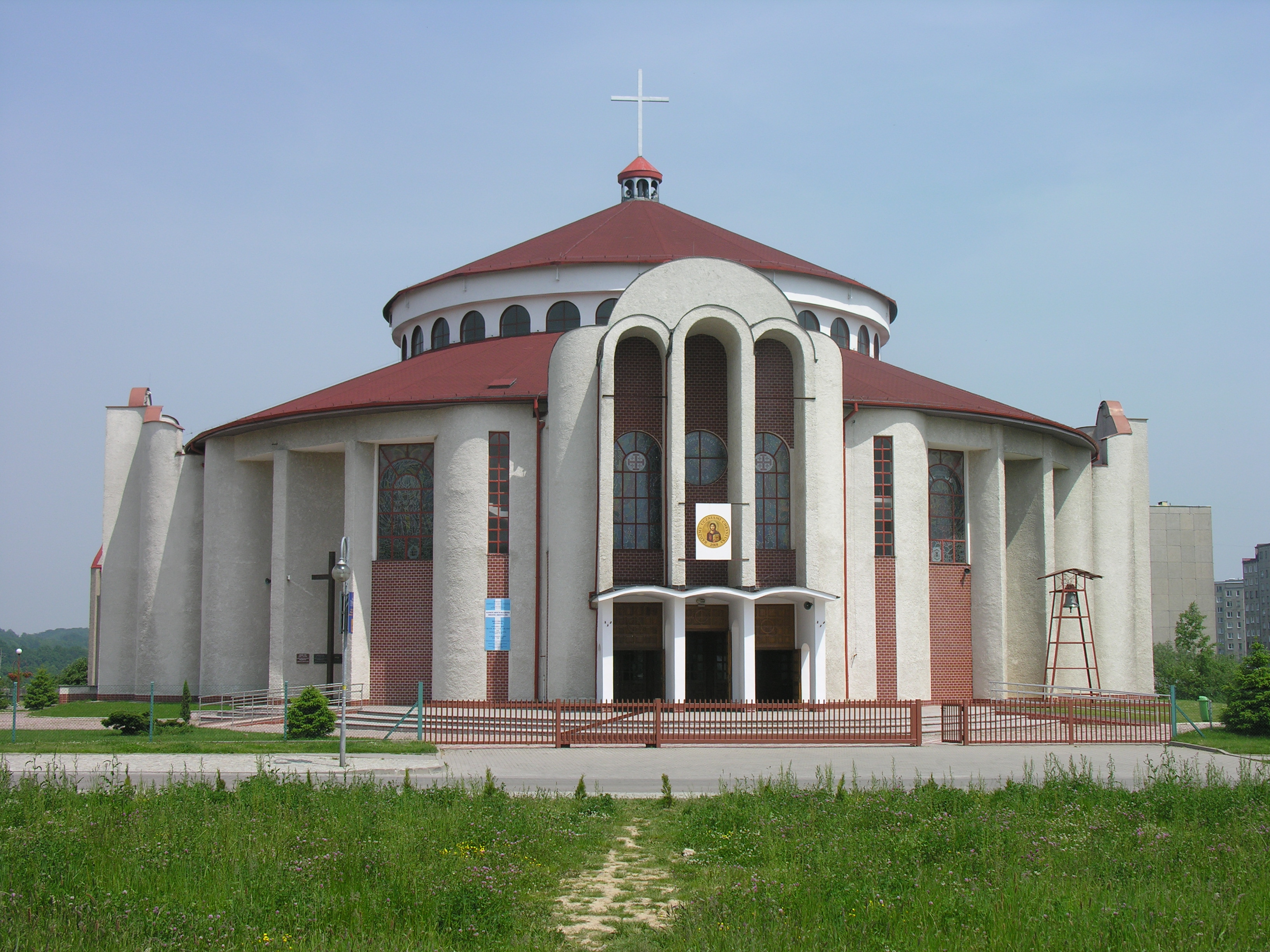 Kościół Podwyższenia Krzyża Świętego w Wałbrzychu